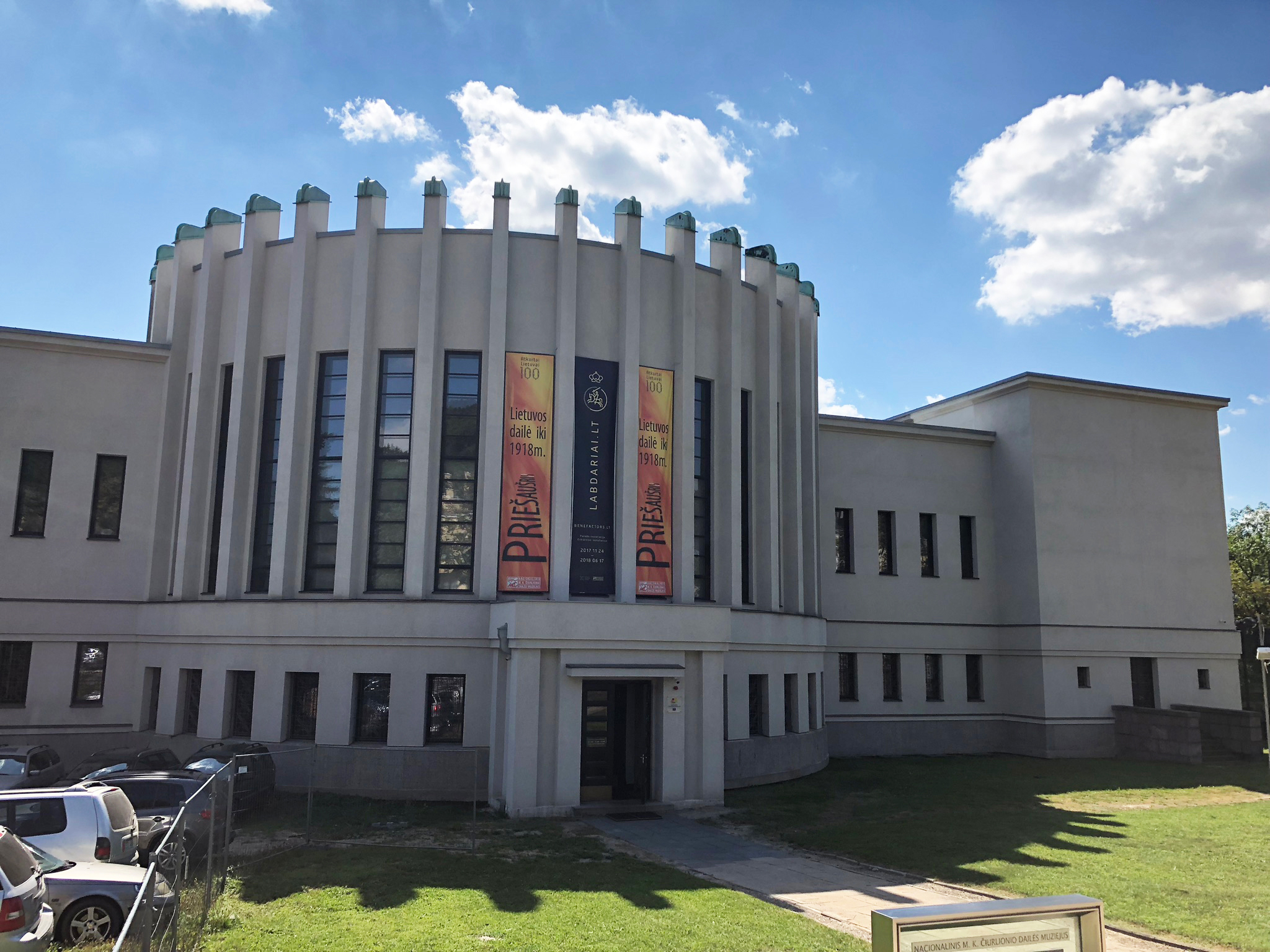 M. K. Čiurlionis National Art Museum with renewed exterior in 2018.